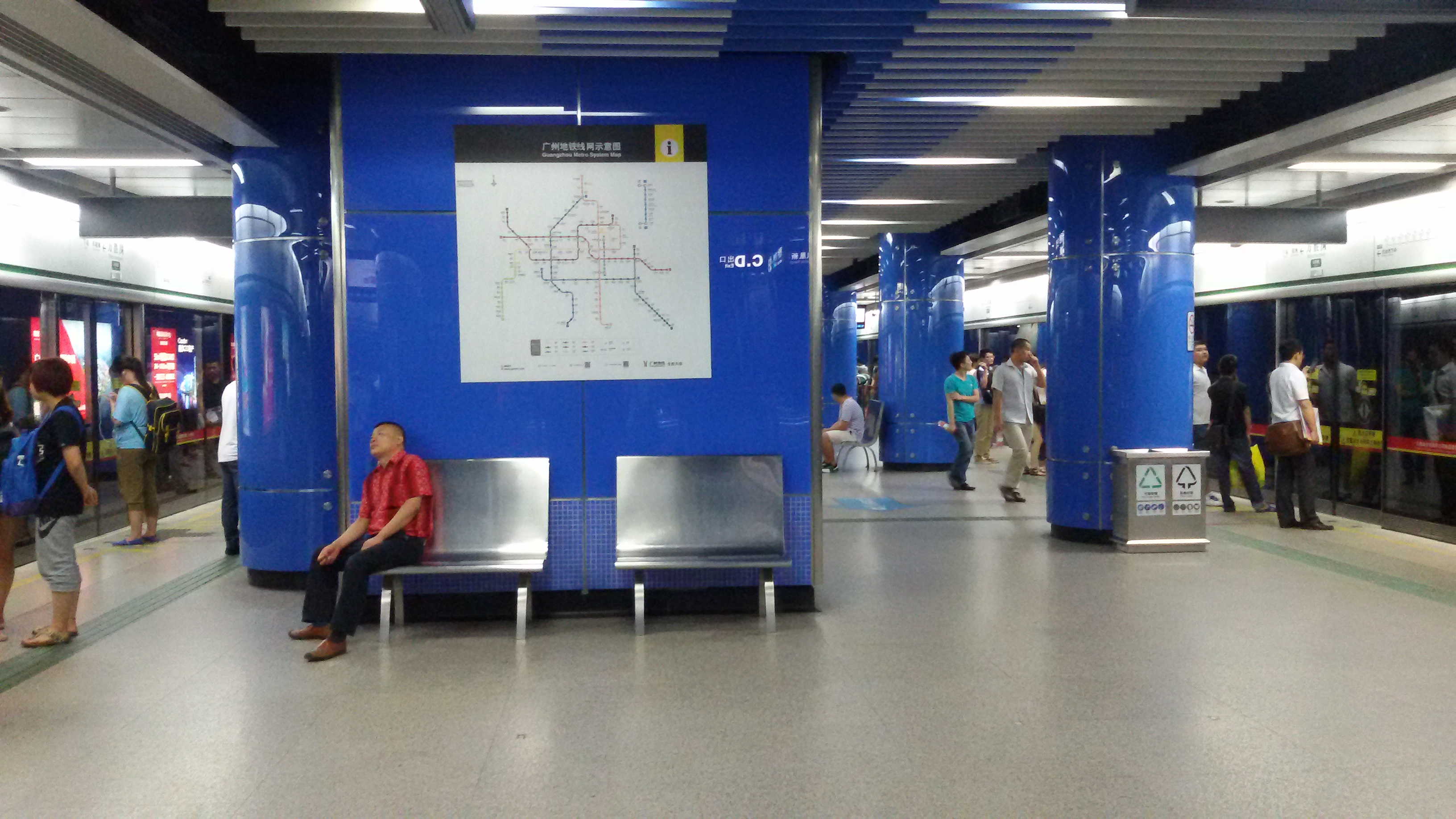 Station Platform for Chebei Station in Guangzhou Metro 粵語: 廣州地鐵，車陂站嘅月台。